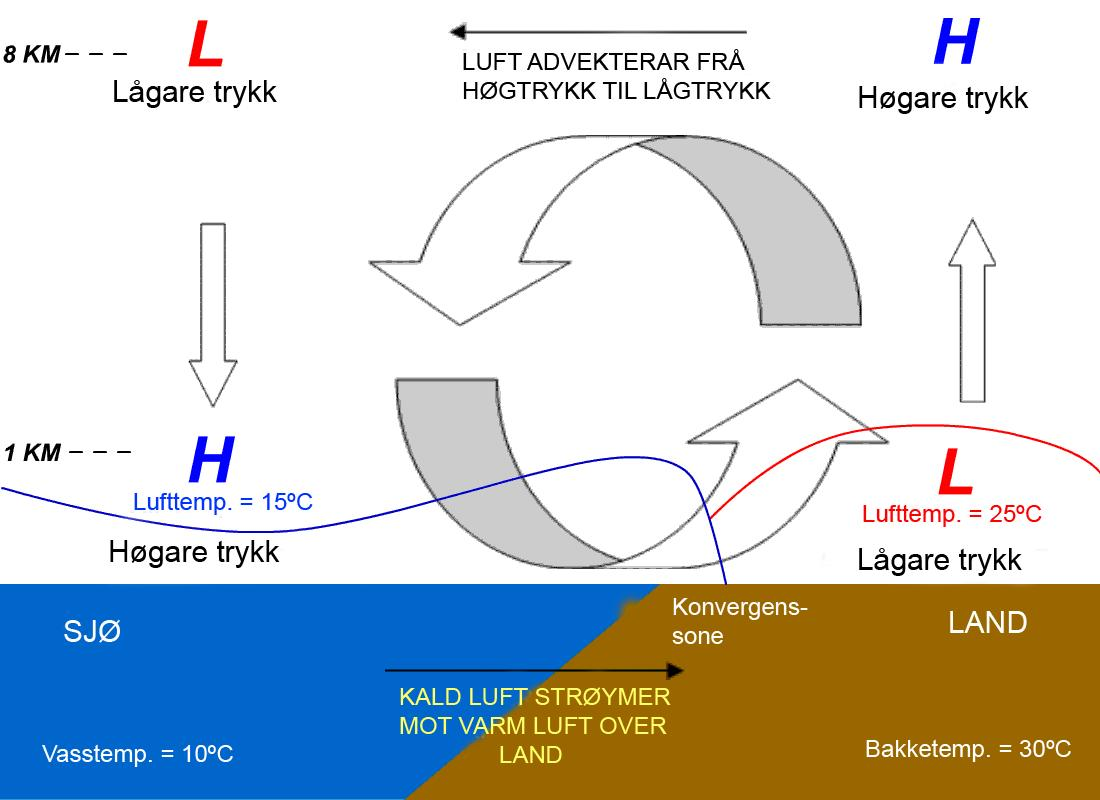 Lake - Sea breeze chart. Weather & Climate. Translated to nynorsk.